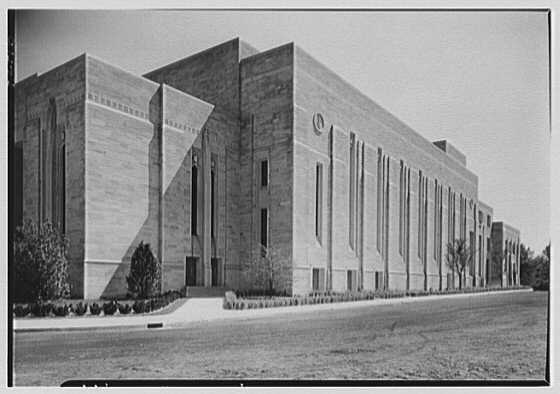 Indiana University Auditorium, Bloomington. South facade, sharp view CALL NUMBER: LC-G612- 42416 [P&P] REPRODUCTION NUMBER: LC-G612-T-42416 (interpositive) MEDIUM: 1 negative : safety ; 5x7 in. FORMAT: Acetate negatives.